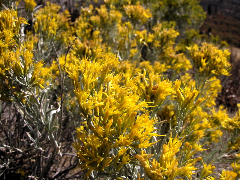 Chrysothamnus nauseosus Description: Gray Rabbitbrush, Chrysothamnus nauseosus, foliage and flowers Viewpoint location: Oregon Highway 66 about 10 km east of Emigrant Lake, east of Ashland, Oregon. Lat/Long: 2.1271°N, 122.5214°W (WGS84/NAD83) USGS Emigrant Lake Quad [1] Viewpoint elevation: 3640' View direction: East Date and time: 2005.10.22 14:17:19 PDT Camera: Canon PowerShot S110 Photographer: Walter Siegmund ©2005 Walter Siegmund